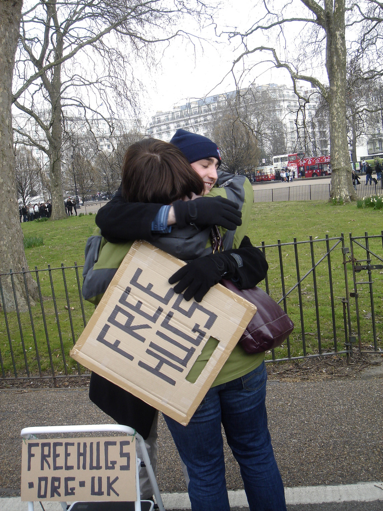 'FREE HUGS', Speaker's Corner, Hyde Park, London. Same guy still seen in 2007 - File:A regular 'FREE HUGS' dispenser, Speaker's Corner, Hyde Park, London.jpg